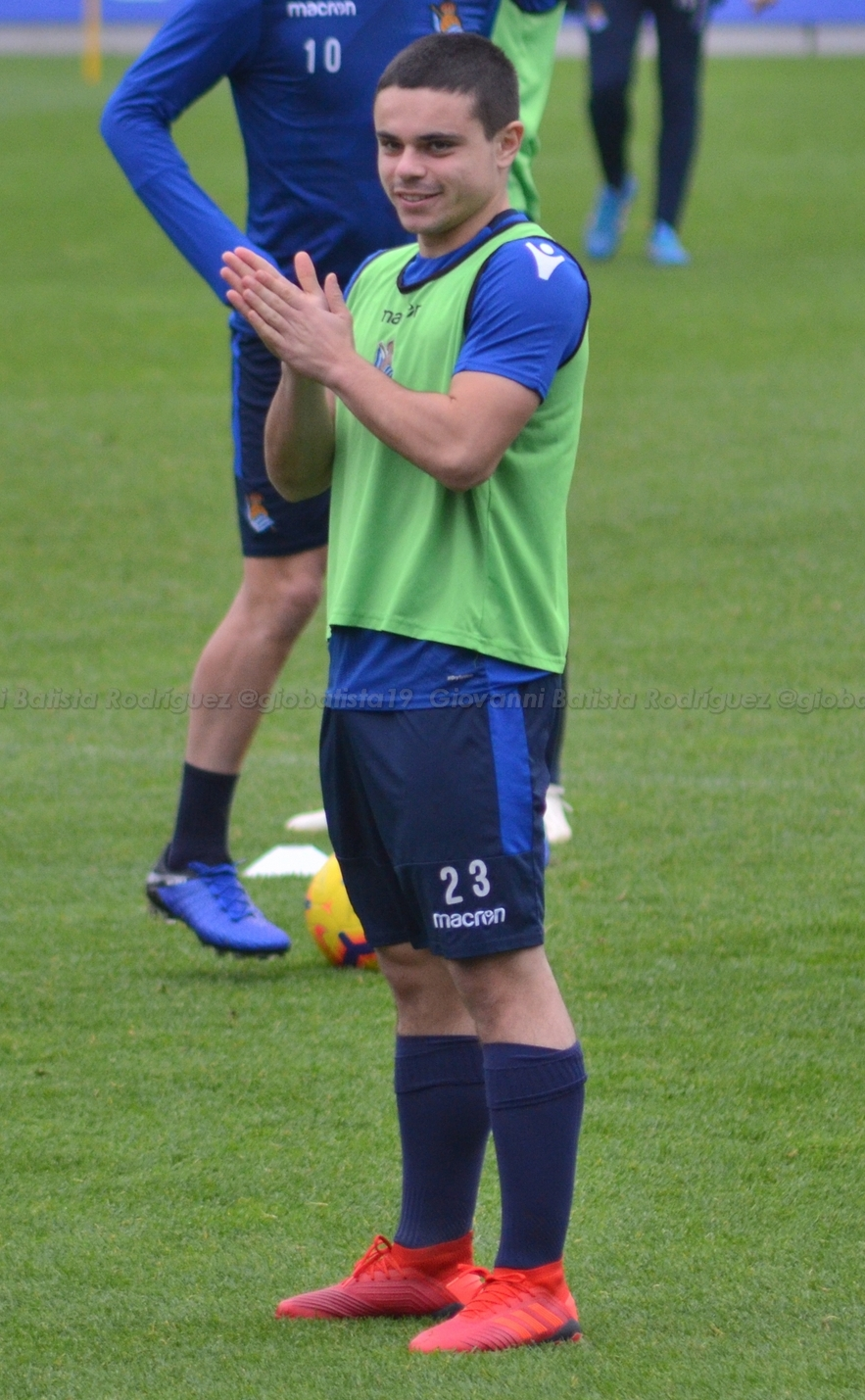 Luca Sangalli during Real Sociedad training